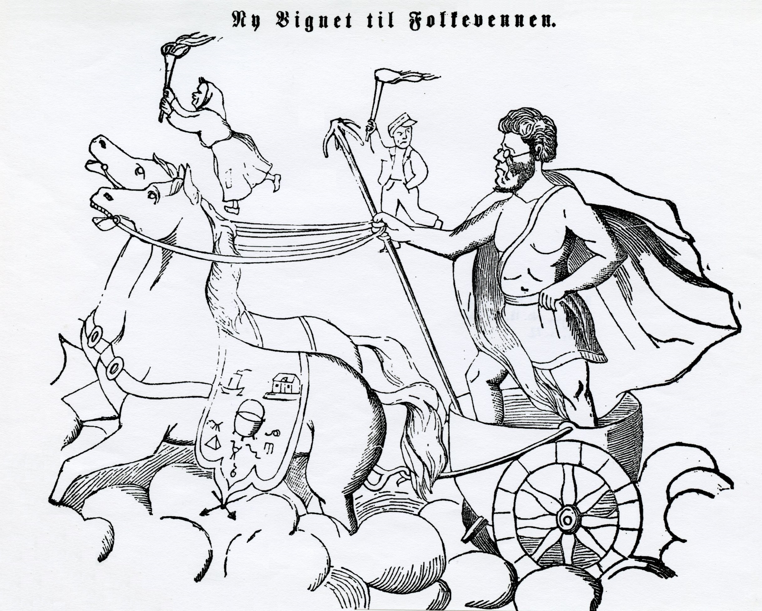 Cartoon on the Norwegian monthly journal, "Folkevennen": The editor Eilert as a new vignette to the journal "Folkevennen".